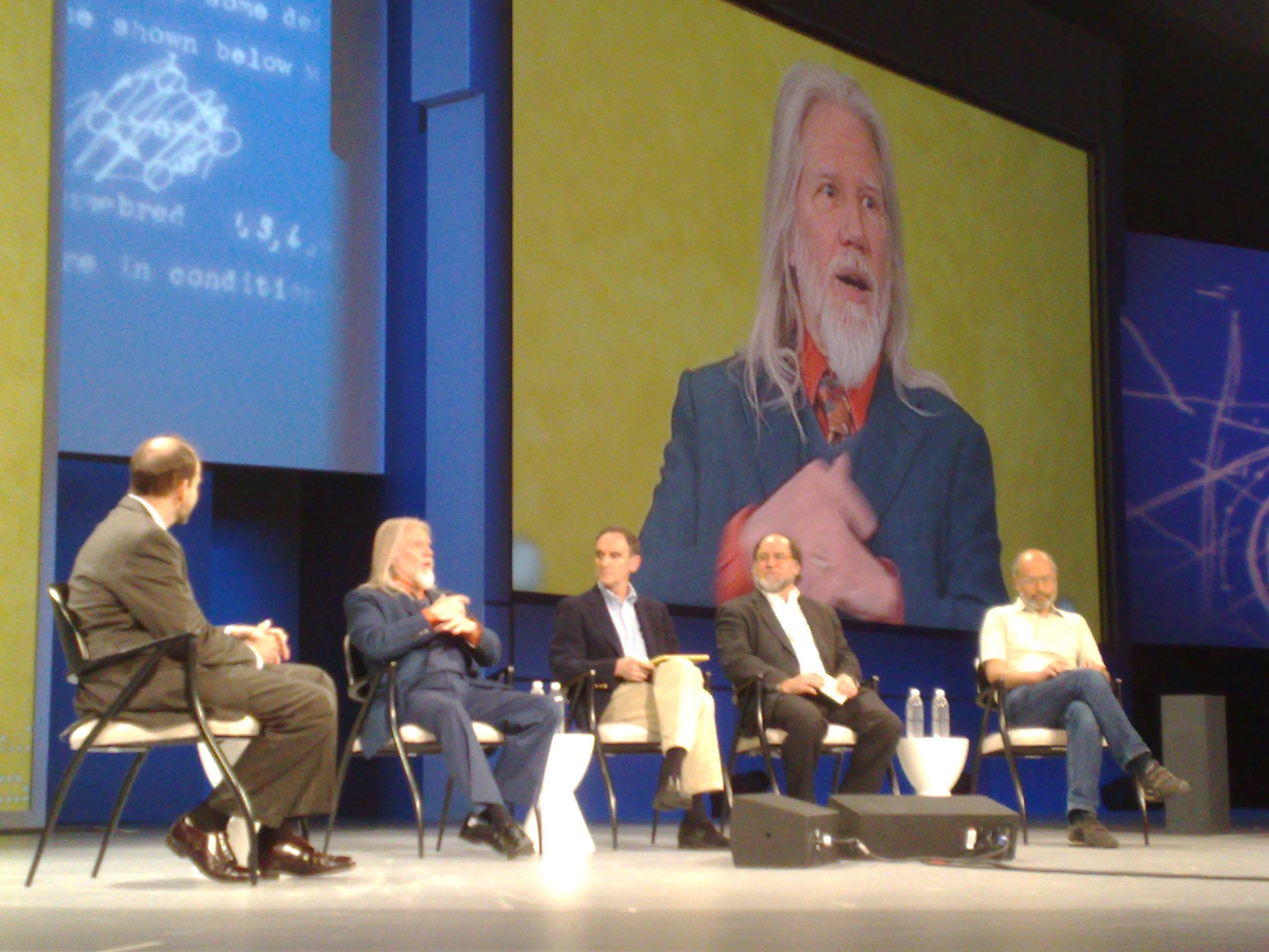 At RSA 2008 Cryptographers Panel From left to right: Burt Kaliski, RSA (Moderator) Whitfield Diffie, Sun Martin Hellman, Stanford University Ronald Rivest, MIT Adi Shamir, Weizmann Institute of Science